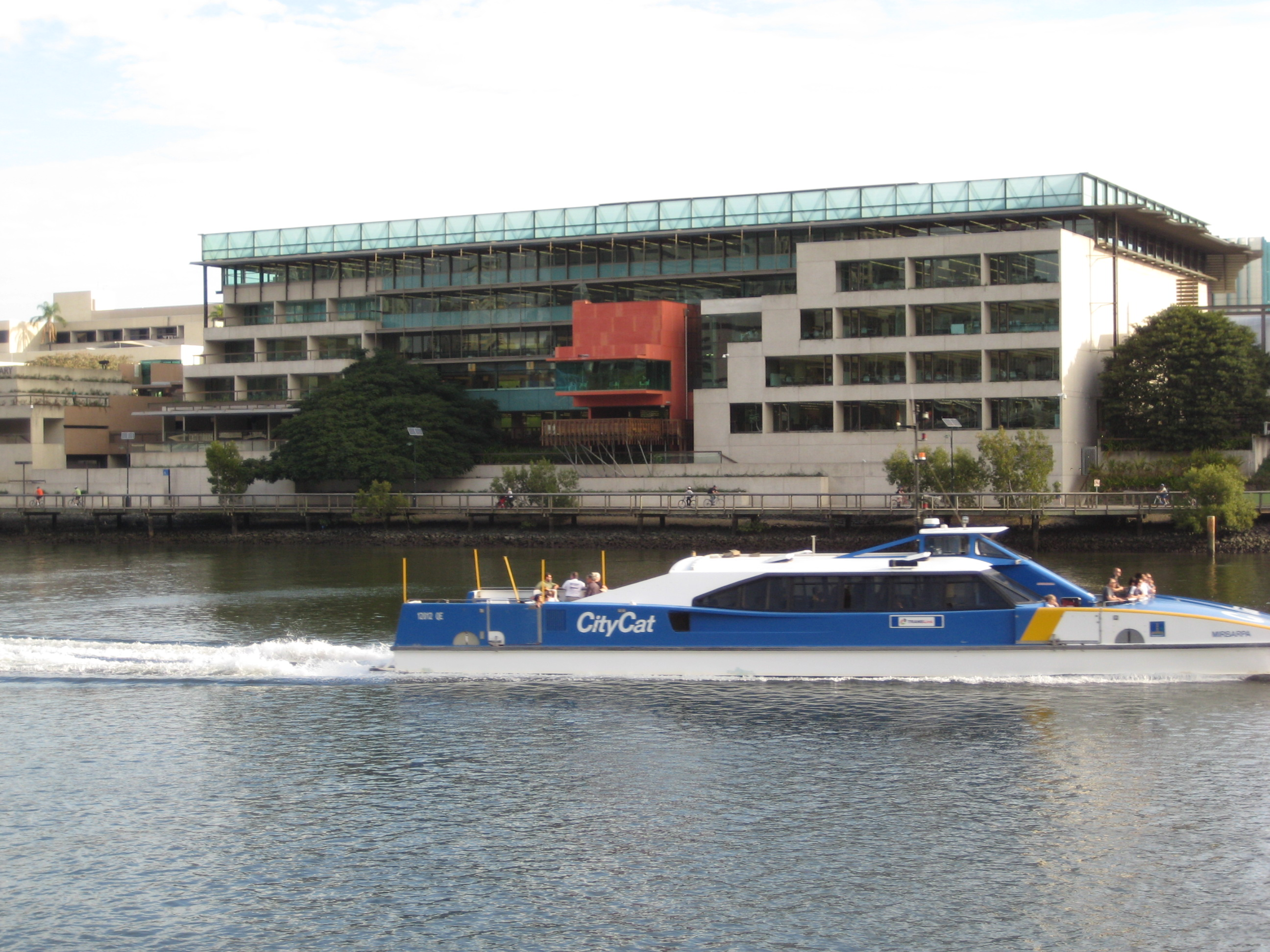 Front view of the State Library of Queensland building from the Brisbane River